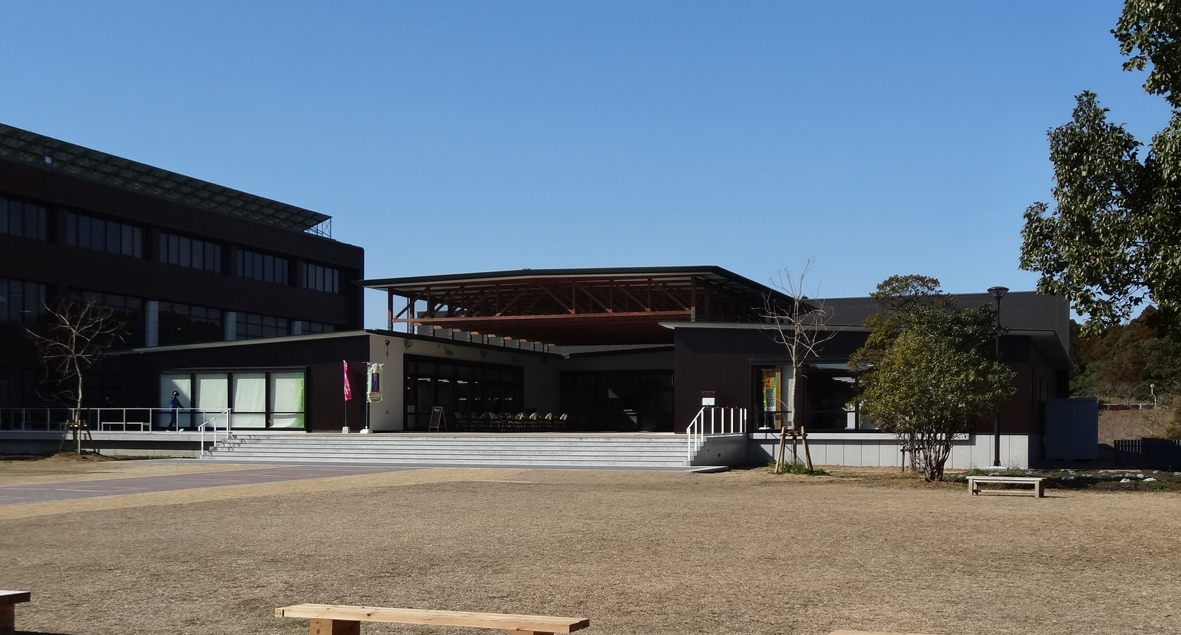 University of Miyazaki - Sansanmaru Hall